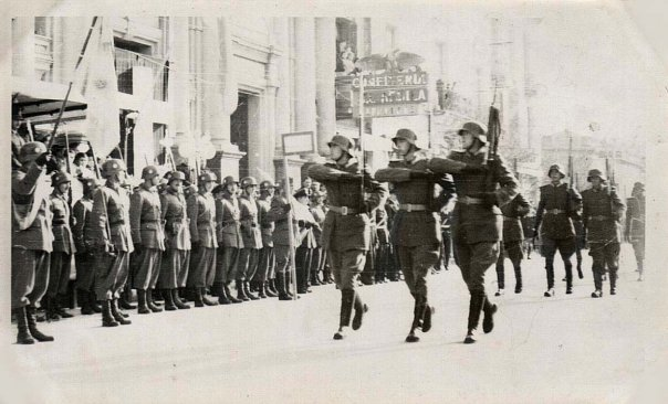 The Argentina soldiers give a military greeting (Zogist salutes) to the Argentina flag.